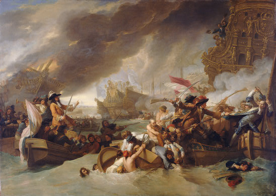 The Battle of La Hogue